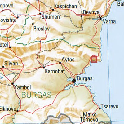 Bulgaria 1994 CIA map, city: part of the map Bulgaria_1994_CIA_map.jpg This image is in the public domain because it contains materials that originally came from the United States Central Intelligence Agency's World Factbook.